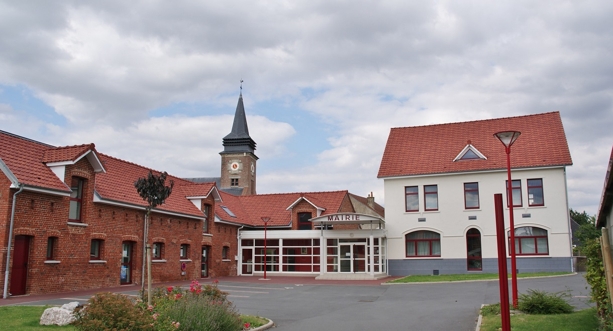 La Mairie